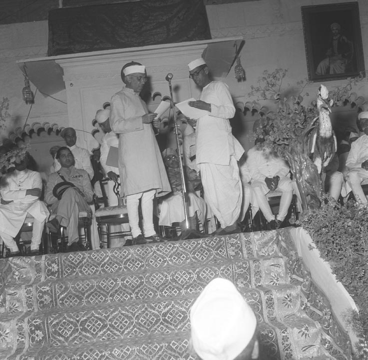 At the ceremony held in Udaipur on April 12, 1948, the reconstitution of the Rajasthan Union, which the Maharana of Udaipur becomes the New Rajapramukh, Pandit Jawaharlal Nehru Minister of India, administers the oath of allegiance to Mr. Manik Lal Verma, Premier of the Union. Photo Number:-2945